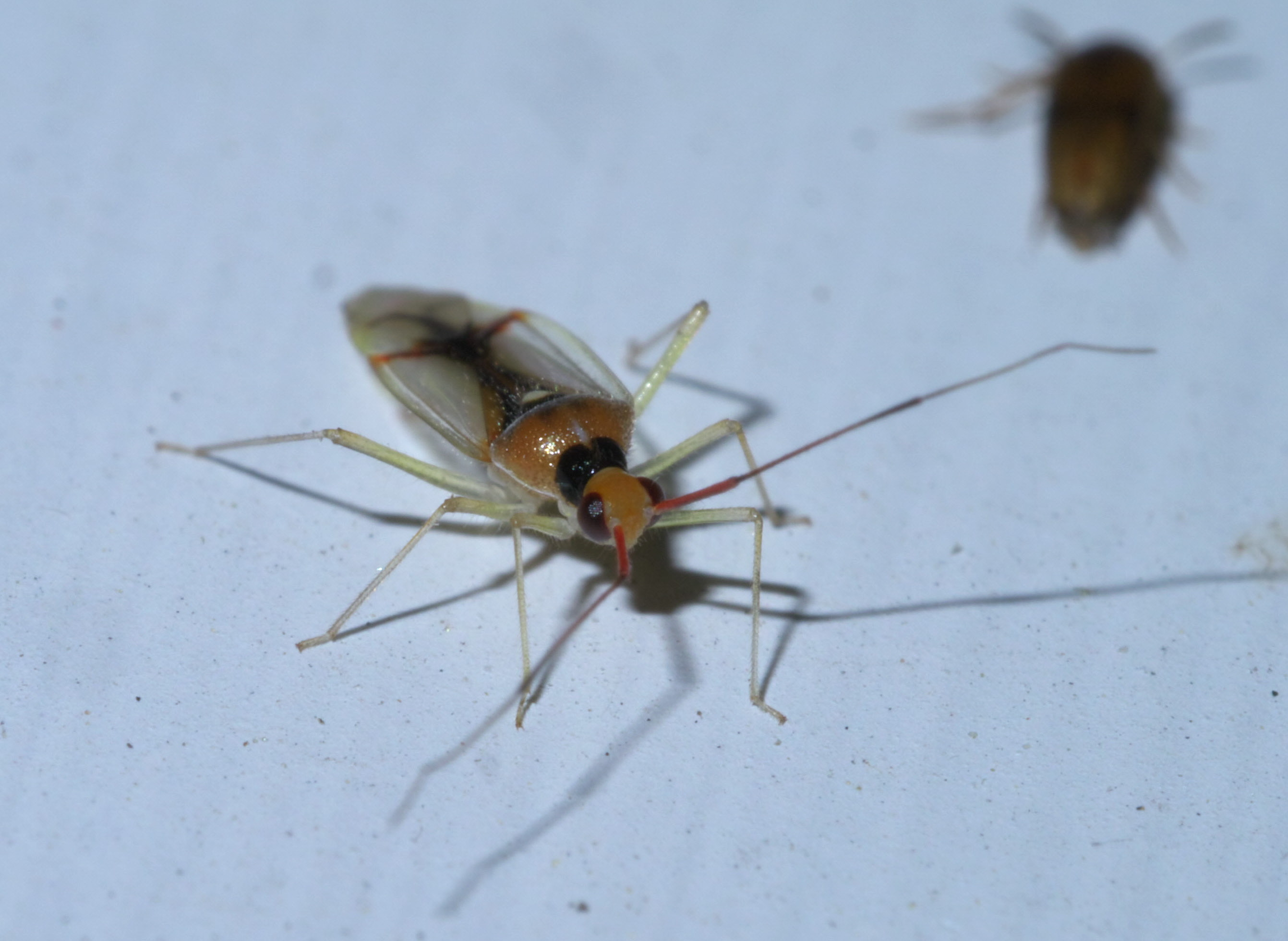 Hyaliodes harti, Family: Plant Bugs, ID Confidence: 90